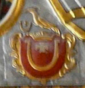 Maksymilian Skrzetuski’s Jastrzębiec coat of arms in his burial monument inside Gniezno cathedral (circa 1776).